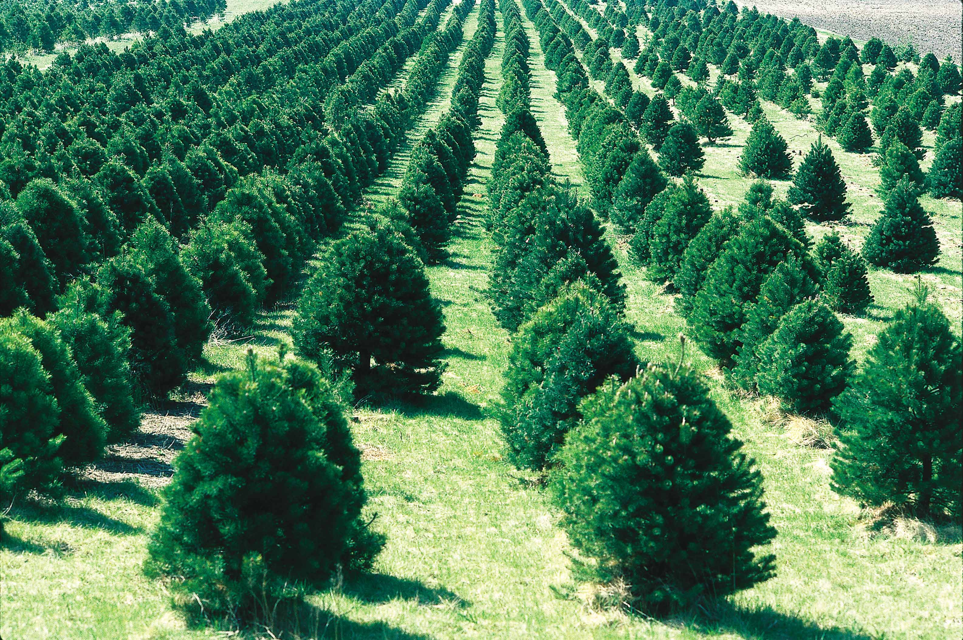 A Christmas tree farm in Iowa, United States.